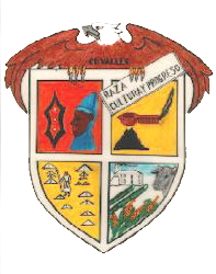 Coat of Arms of Ciudad Valles, San Luis Potosi